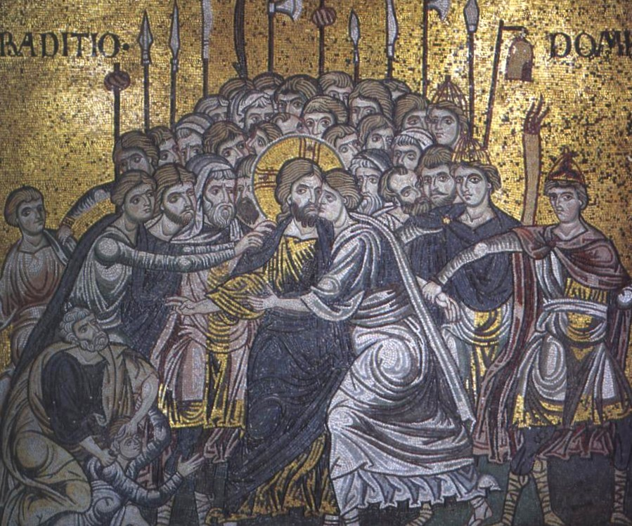 Judas's kiss - mosaic in Monreale Cathedral